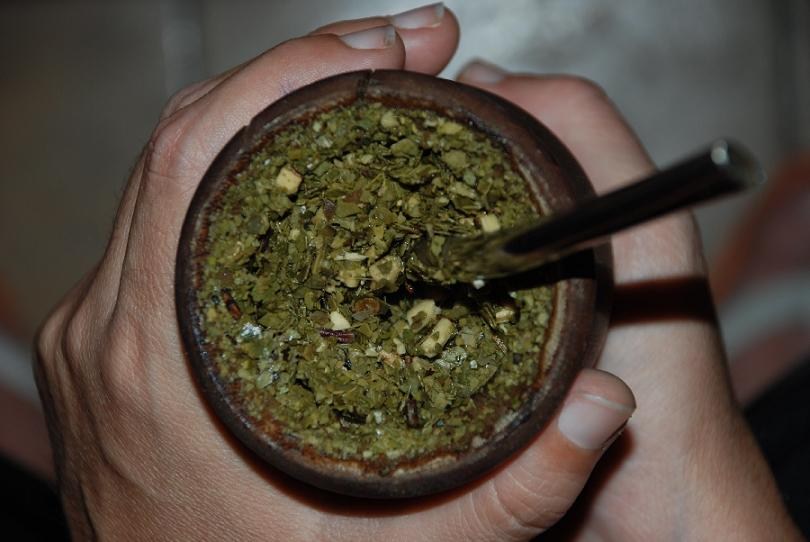 This is the way people in Argentina drink their beloved Mate.